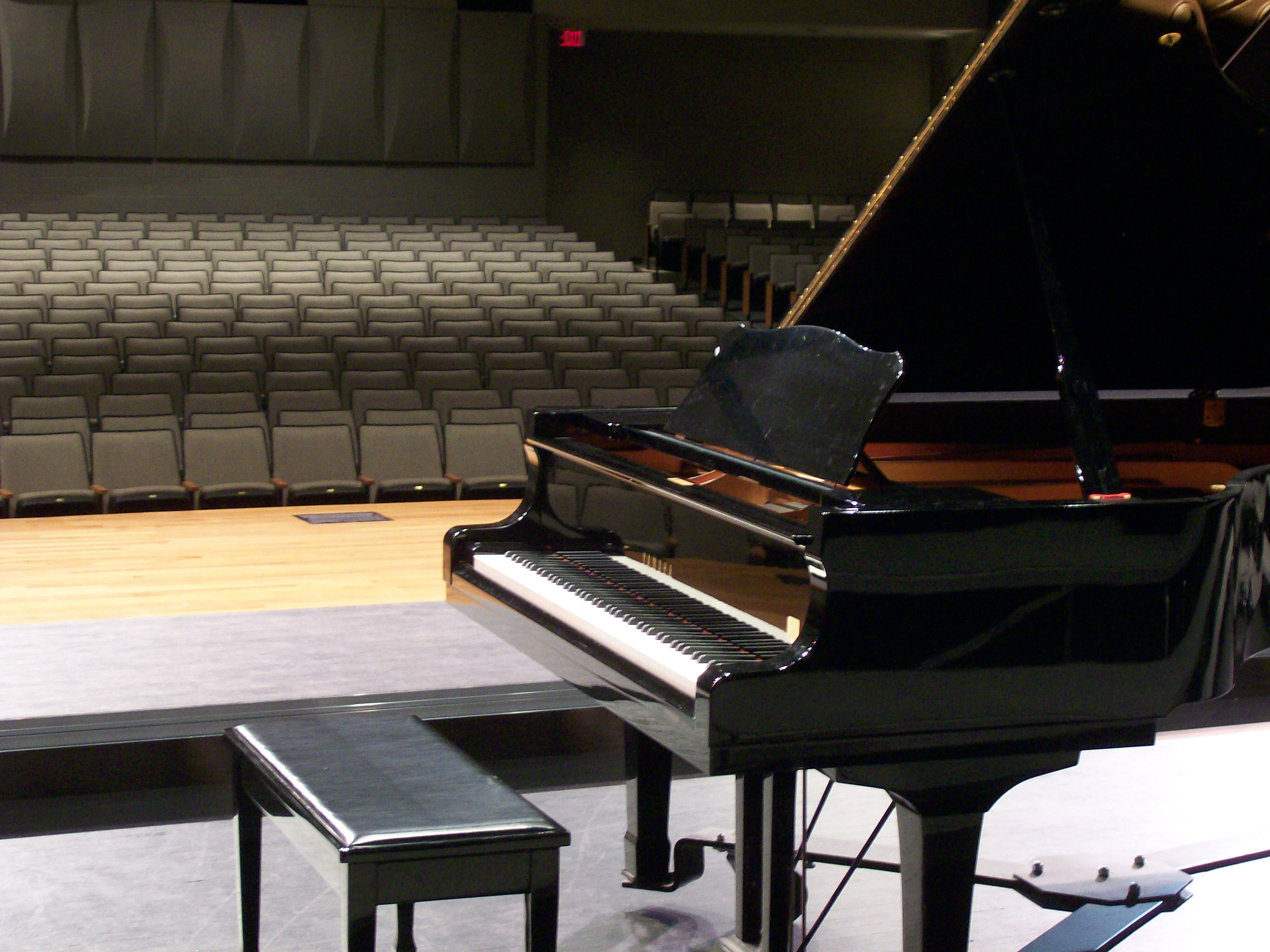 Yamaha C6 grand piano at the Platte City High School tuned and serviced by Durand Piano Service.